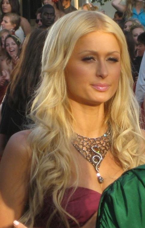 Paris Hilton at the 2008 MTV Video Music Awards.